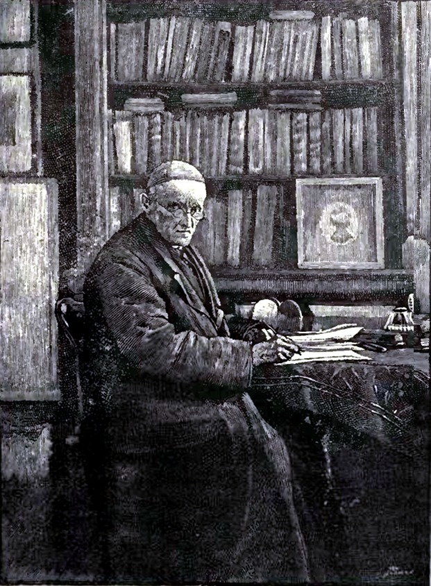 Henry Edward Manning, (July 15, 1808 - January 14, 1892), English Roman Catholic Archbishop and Cardinal.